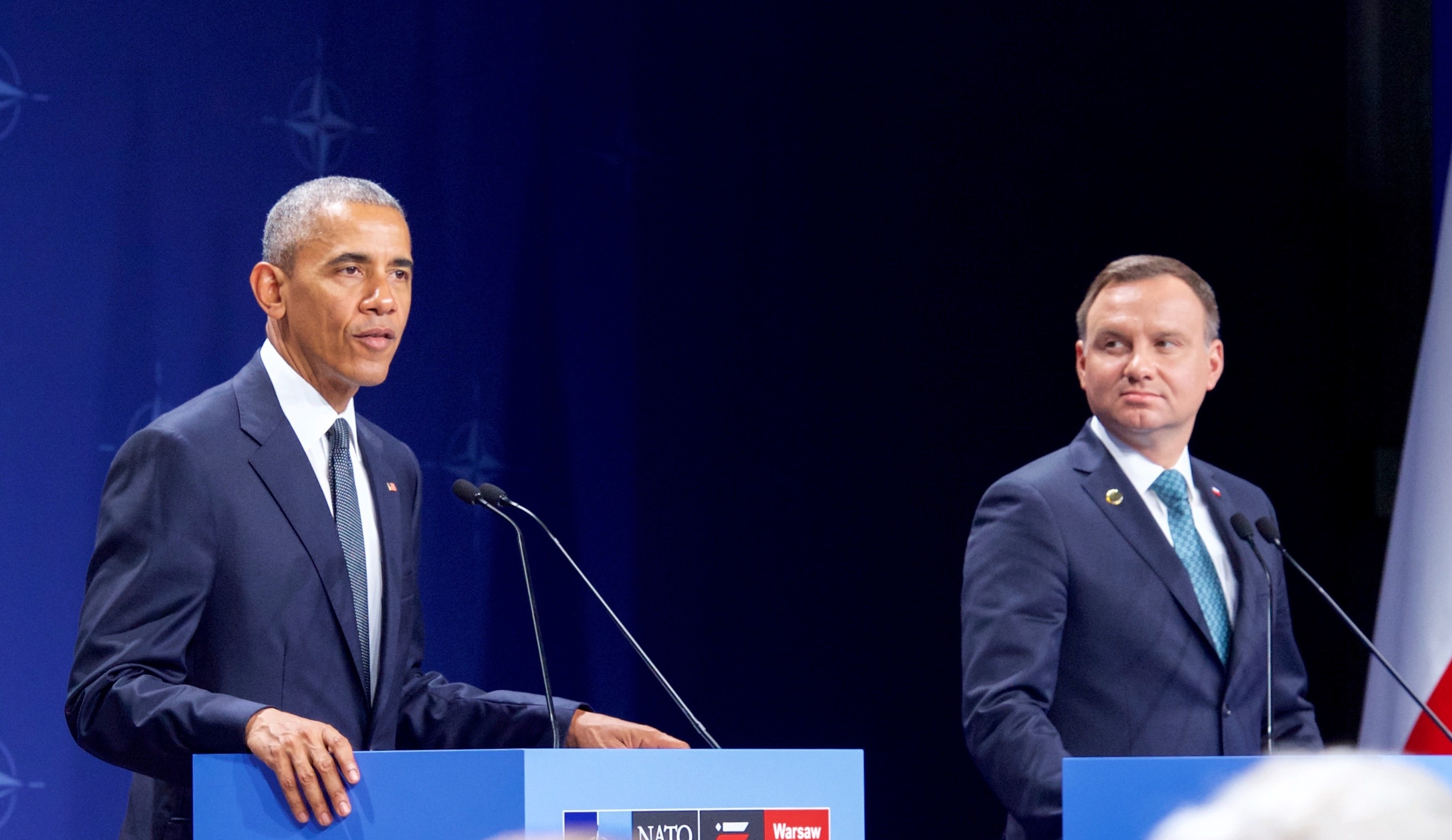 U.S. Secretary of State John Kerry and U.S. Defense Secretary Ash Carter look on from the audience as President Obama makes remarks on July 8, 2016, at the National Stadium in Warsaw, Poland, during a joint statement with Polish President Andrzej Duda following a bilateral meeting on the sidelines of the NATO Summit. [State Department Photo/ Public Domain]